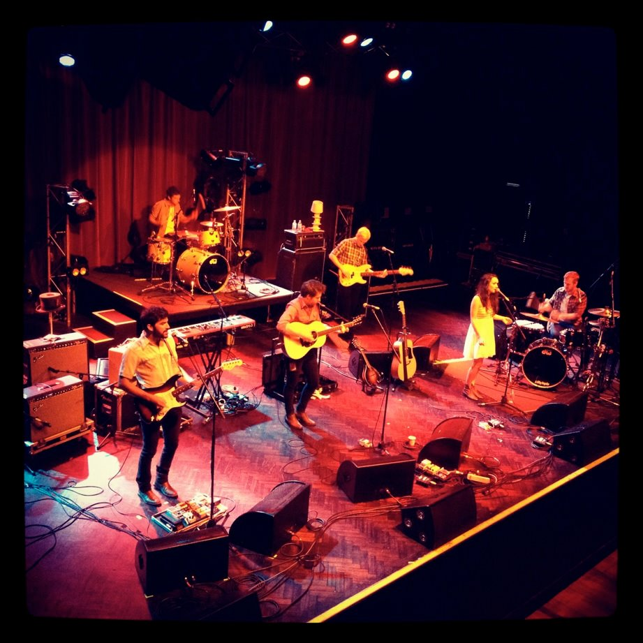 The Paper Kites play The Palace in Melbourne